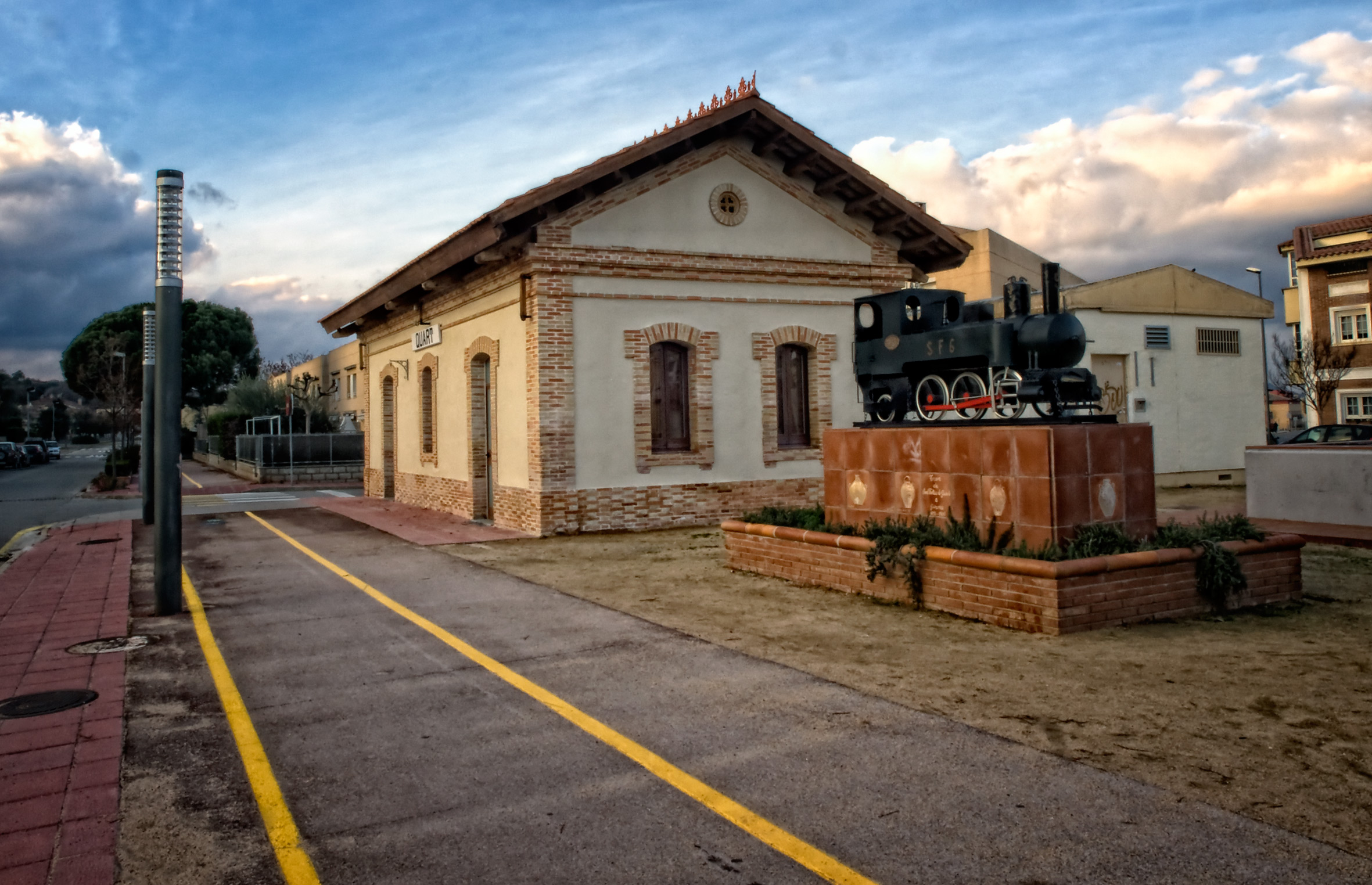 Carrilet Station (Quart, Catalonia, Spain)